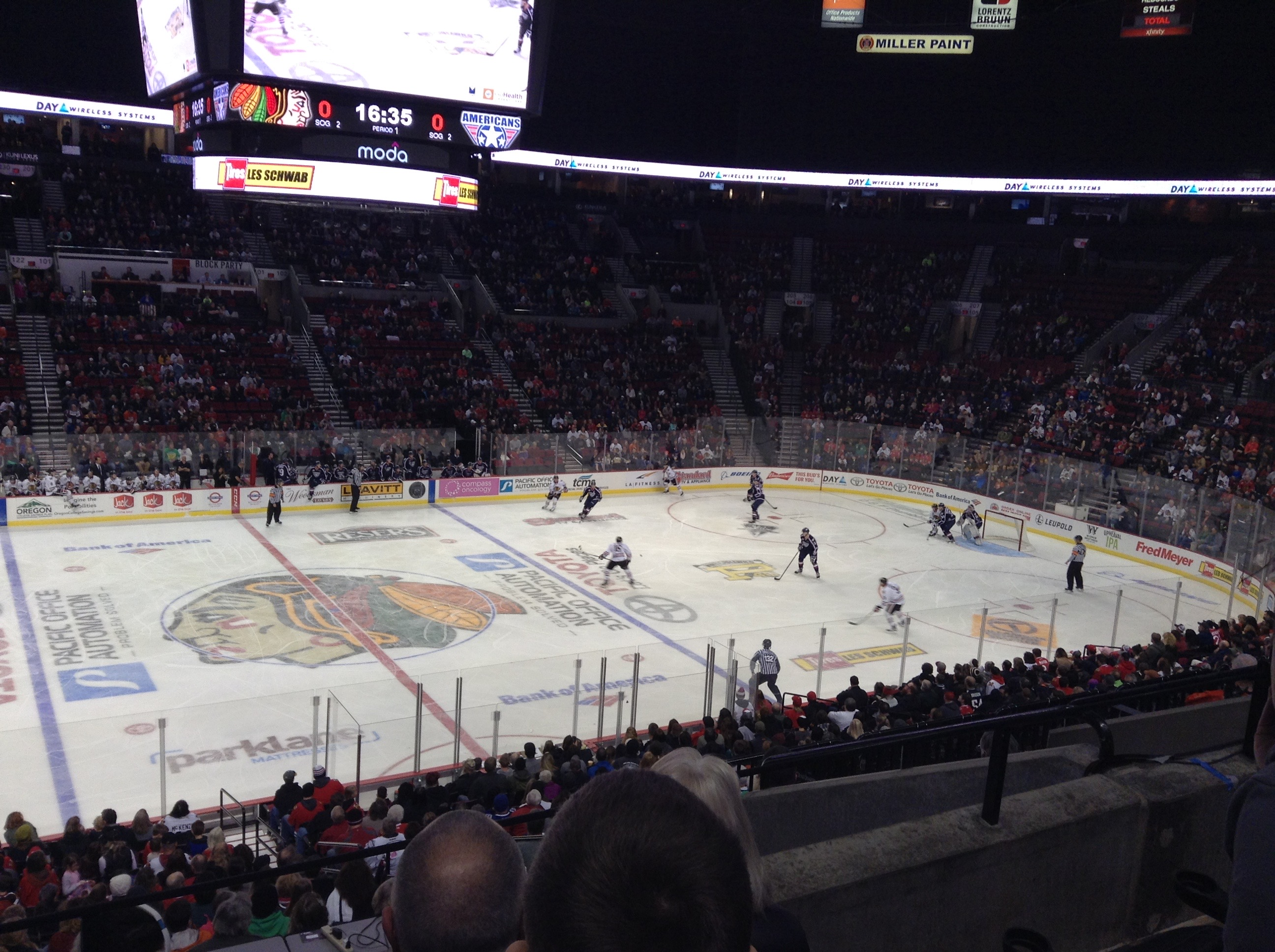 Portland Winterhawks 01/24/16 game vs. Tri-City Americans